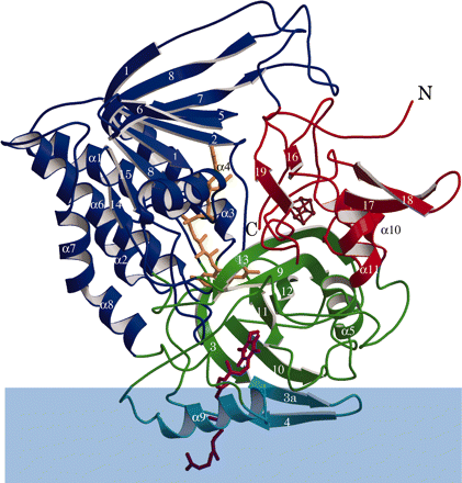 Colored structure of the etf oxidoreductase enzyme (PDB: 2GMH)